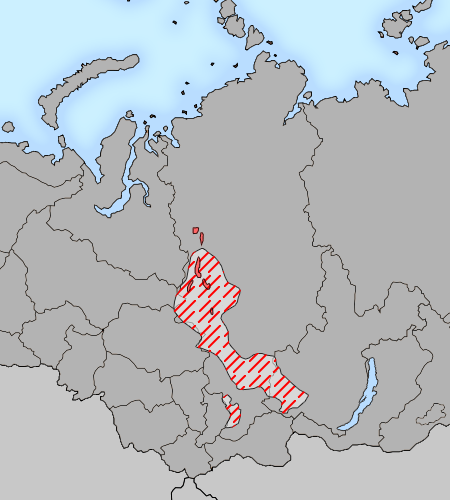 The map of distribution of Yeniseian languages (red) in the XVII century (approximate; hatching) and in the end of XX century (continuous background).